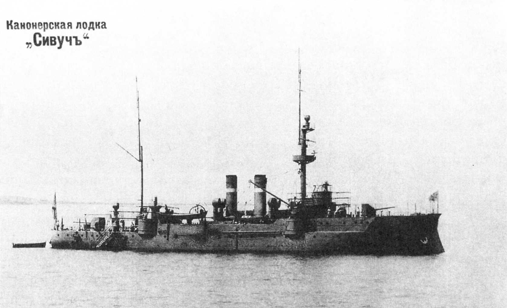 Imperial Russian gunboat Sivuch (II).